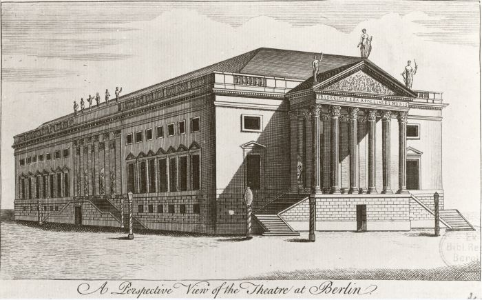 Berlin opera-house in its original shape.